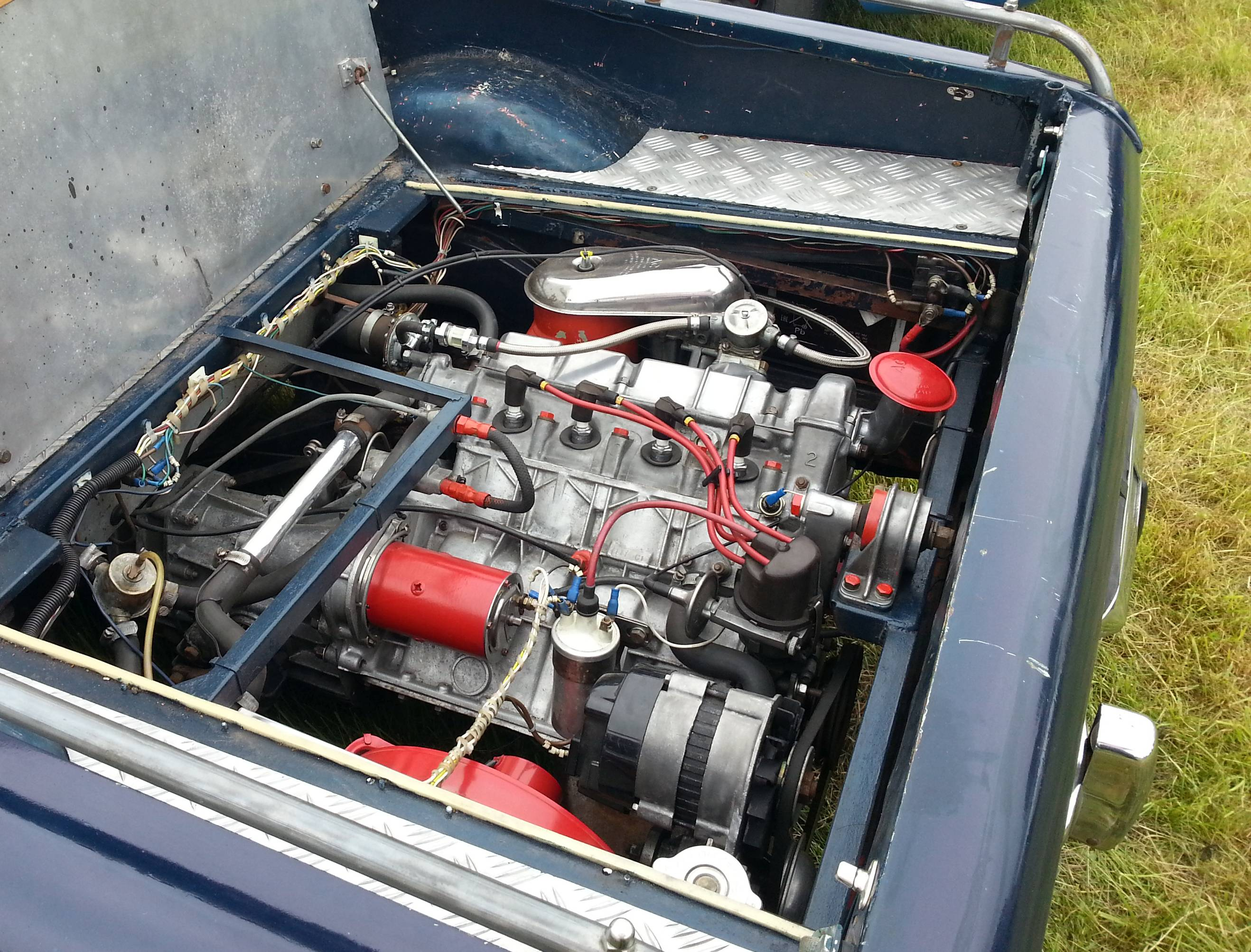 Hillman Imp engine. This isn't normally visible (or serviceable), but this car is a pickup conversion.